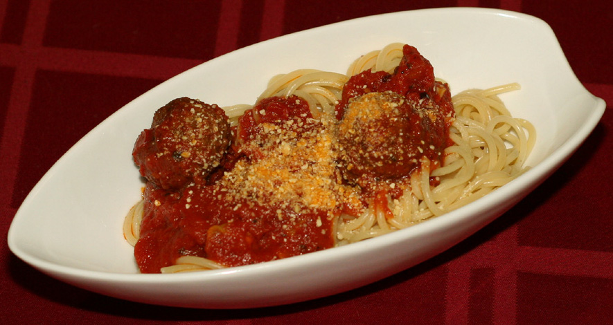 Spaghetti alla Bolognese with meatballs